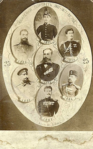 Atanas Iliev Dukov Photo Gallery